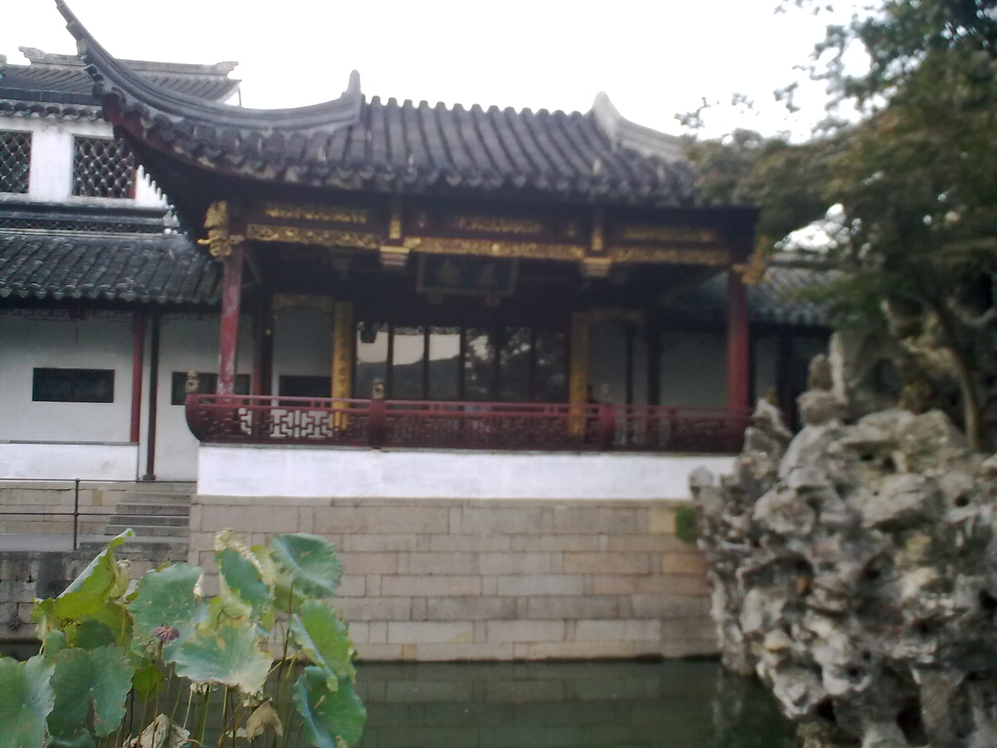 True Delight Pavilion